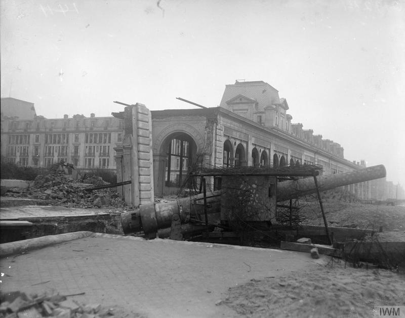 The Capture of Ostend, October 1918 A 150 mm gun of the Gneisenau Battery in front of the Royal Palace, Ostend. Part of the colonnade was blown up when the Germans destroyed the Battery, October, 1918.